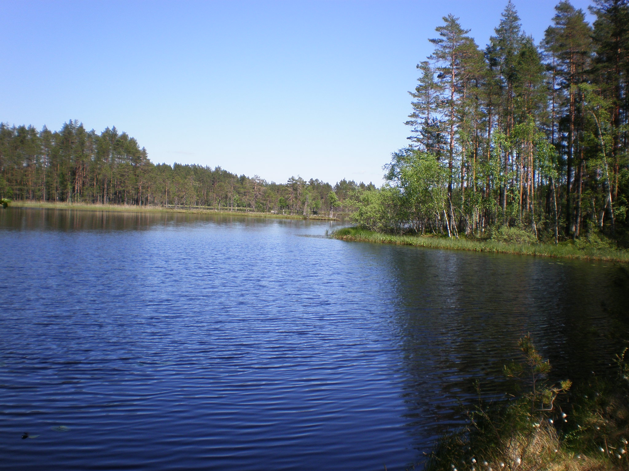 Lake Kirkaslampi at the Seitseminen National Park